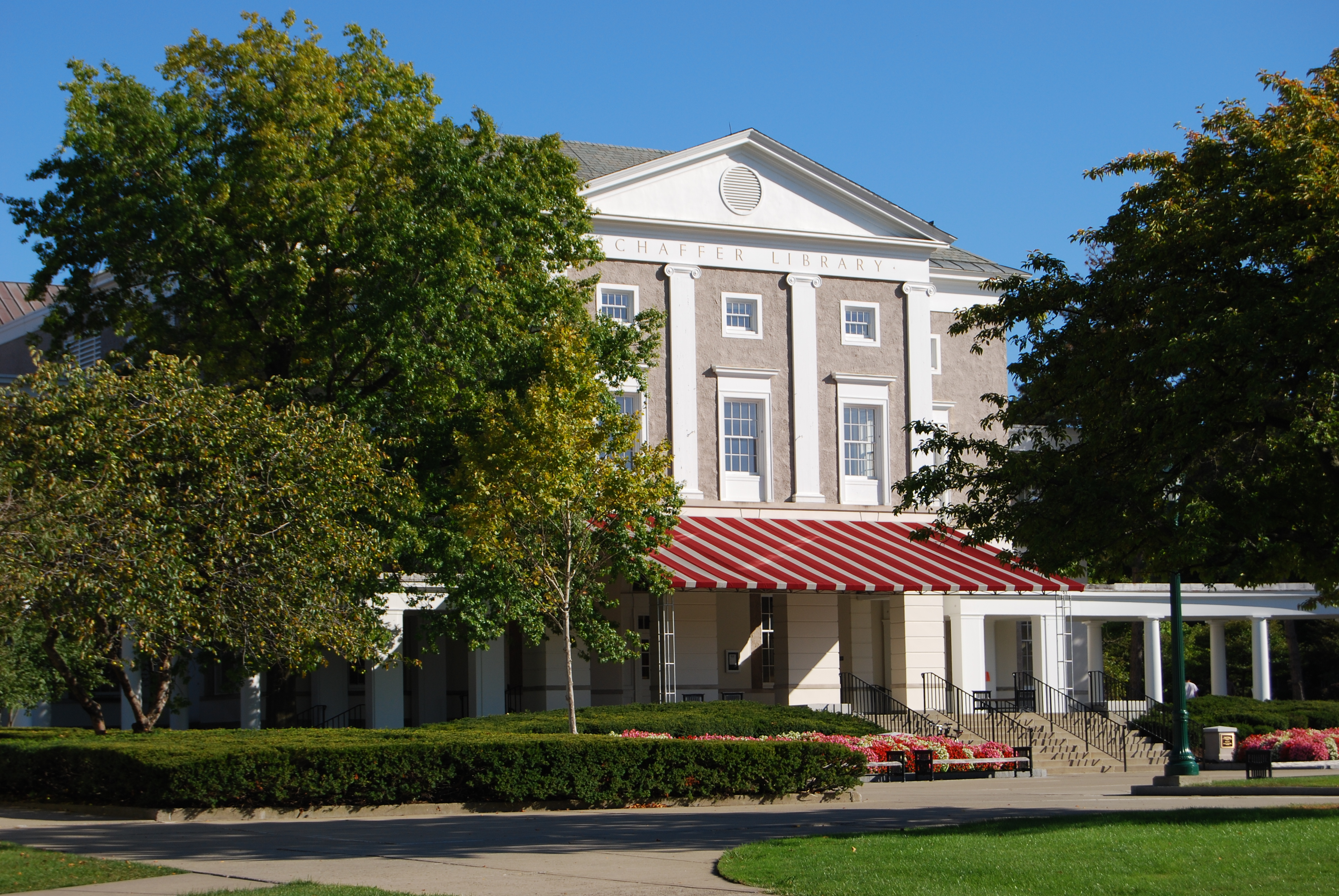 Schaffer Library on the campus of Union College in Schenectady, New York, United States